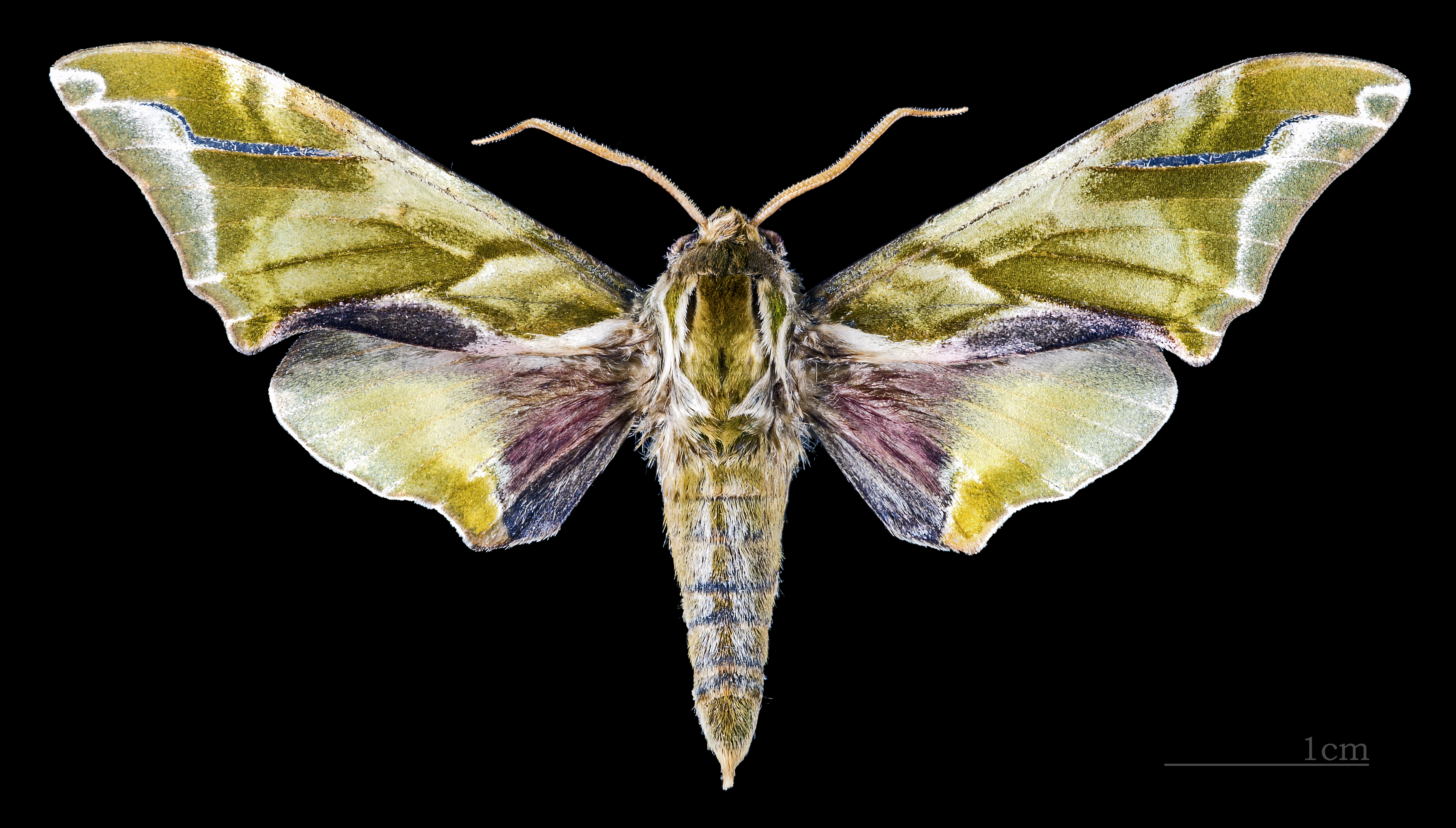 Callambulyx sinjaevi - Dorsal side Paratype Collection of the Mathematician Laurent Schwartz